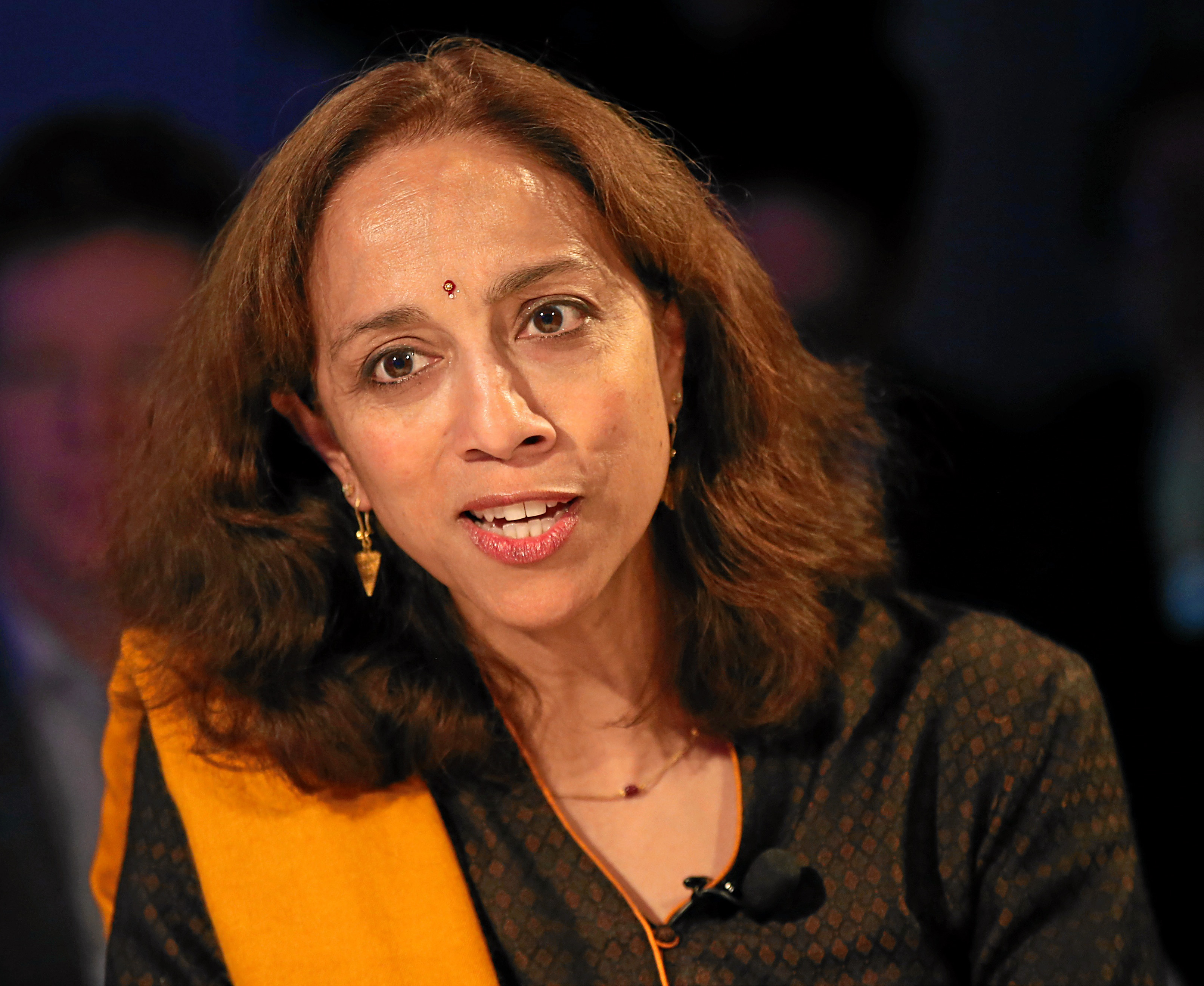 DAVOS/SWITZERLAND, 24JAN13 - Kavita N. Ramdas, Representative, Ford Foundation, India; Global Agenda Council on India is captured during the session 'India's Growth Context' at the Annual Meeting 2013 of the World Economic Forum in Davos, Switzerland, January 24, 2013. Copyright by World Economic Forum Mirko Ries